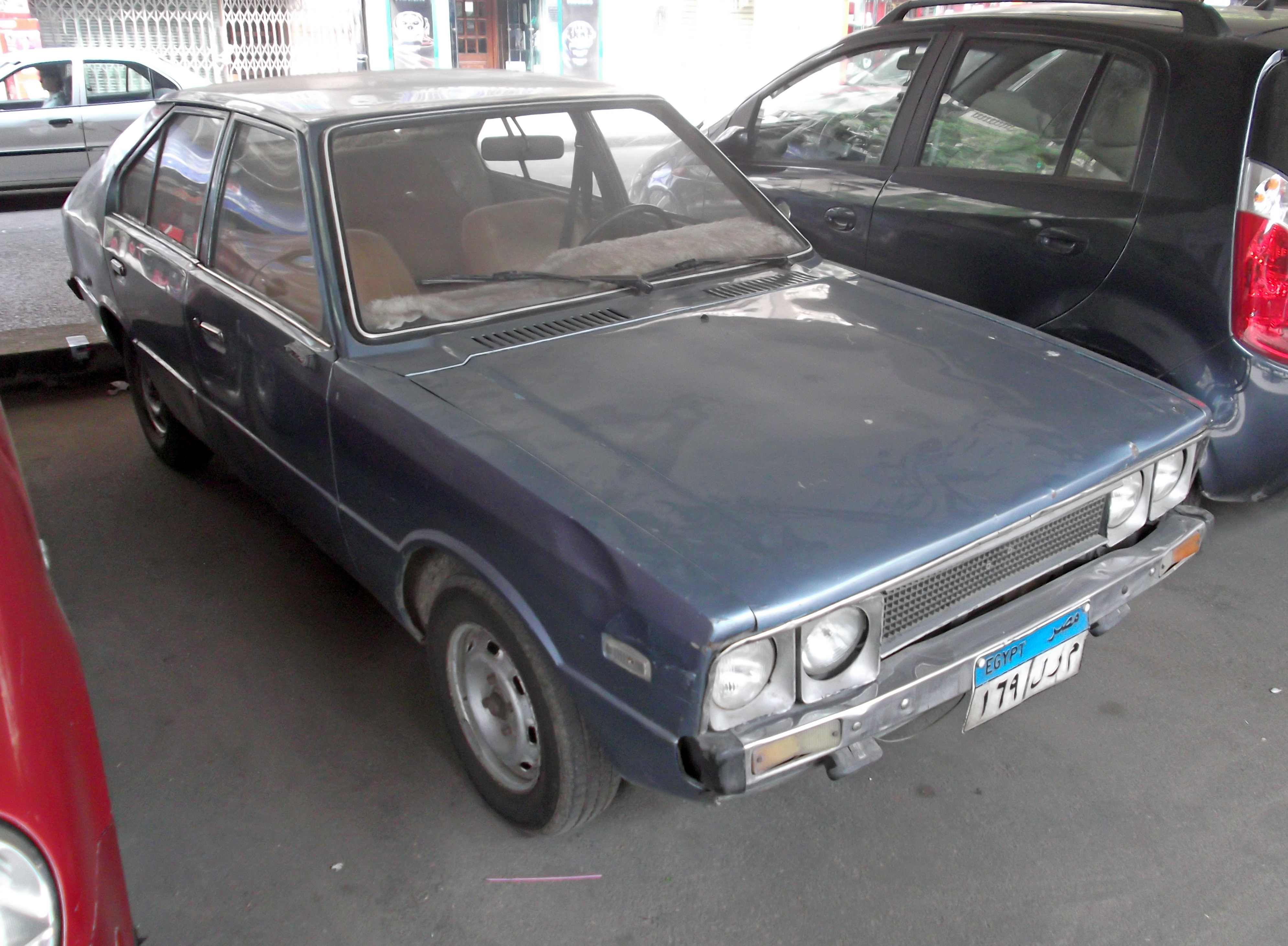 Hyundai Pony first generation (1975-82) in Egypt